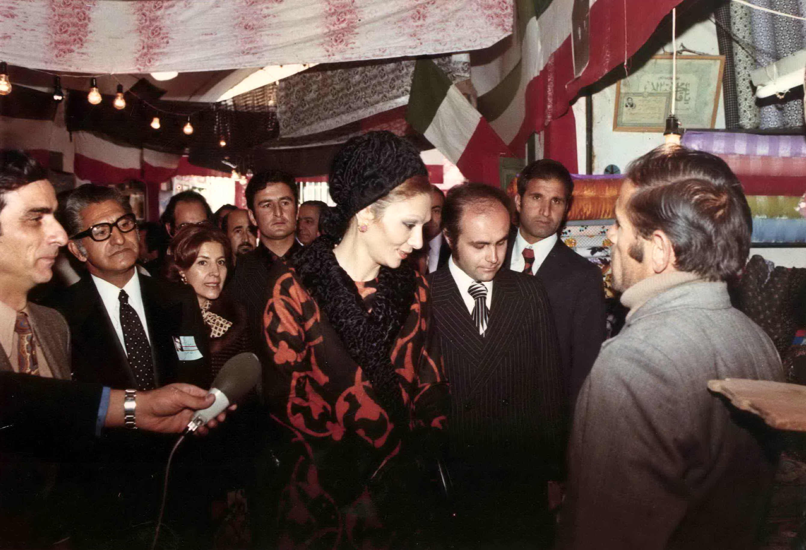 Farah Pahlavi in Bazaar of Damghan